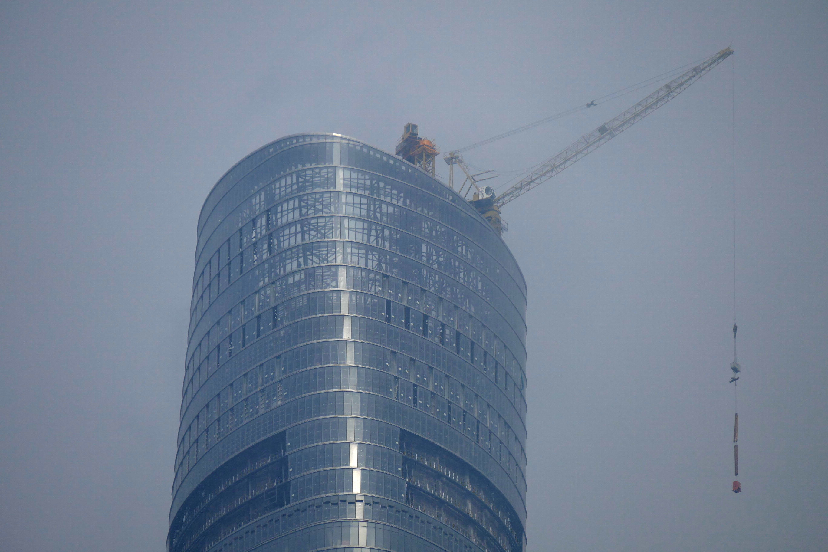 Shanghai Tower as seen from Zhongshan East 2nd Road Shanghai, China, 16.22.2014